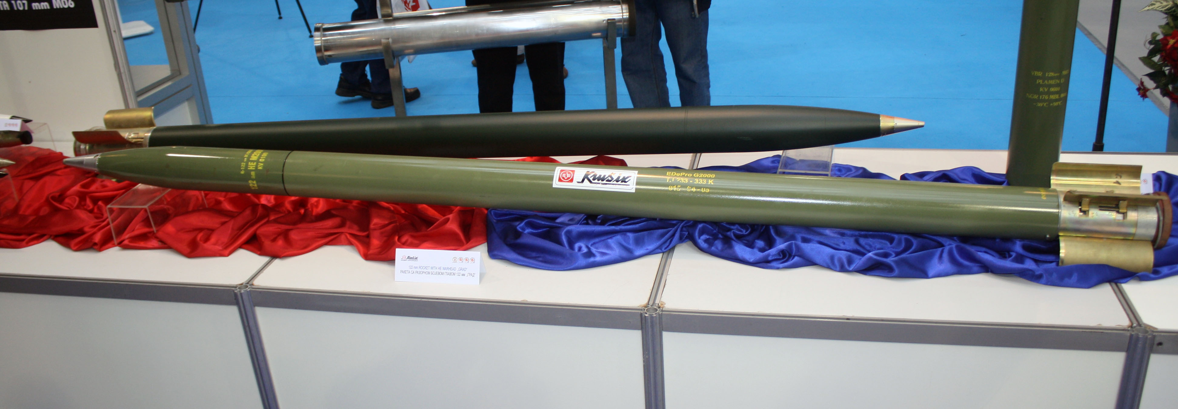 Grad 2000 122mm MLRS rocket on display at Partner 2015 military fair.